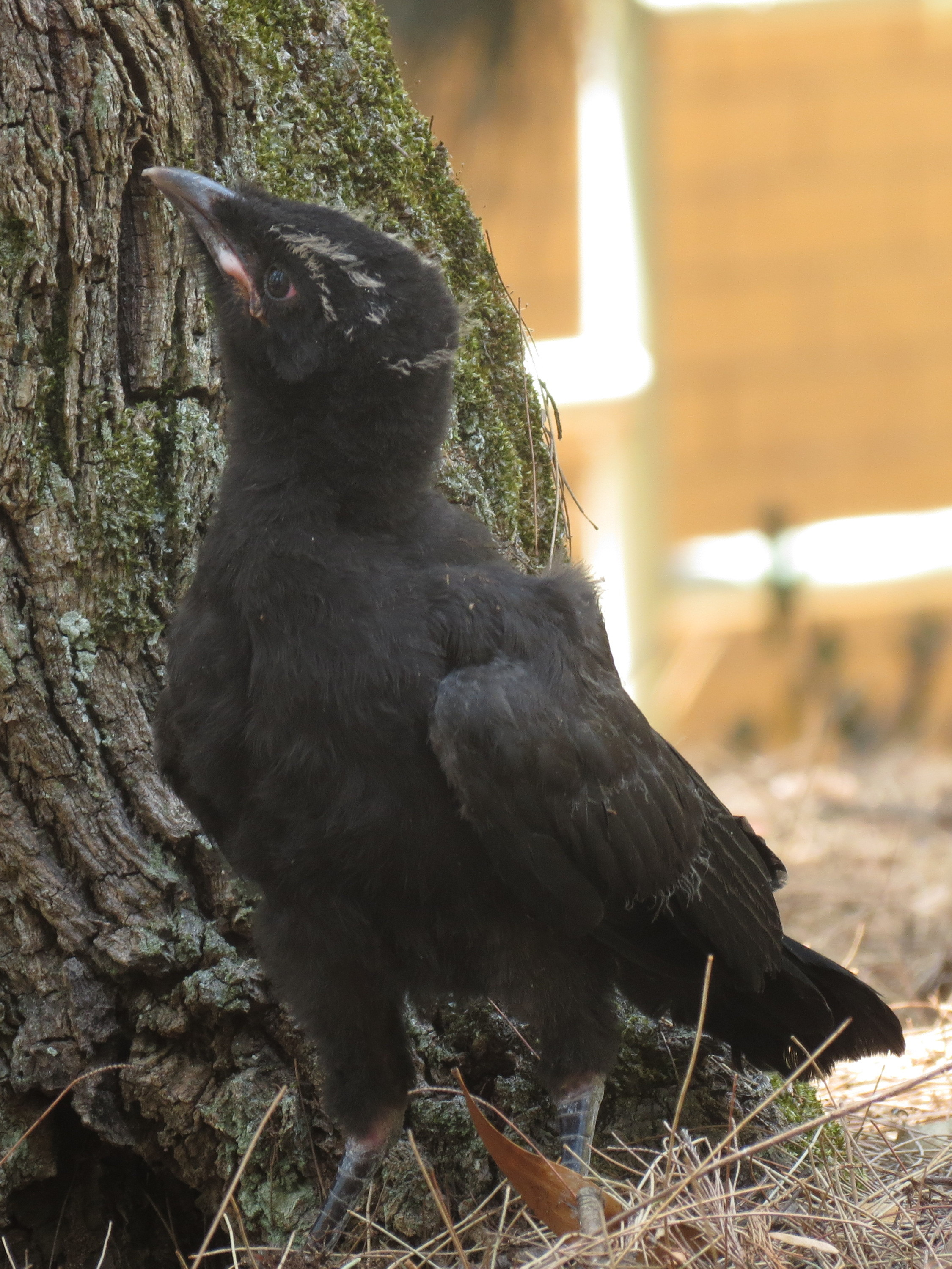 Corcorax melanorhamphos (Vieillot, 1817), White-winged Chough, fledgling, Australian National Botanic Gardens, Canberra, ACT, 18 January 2014